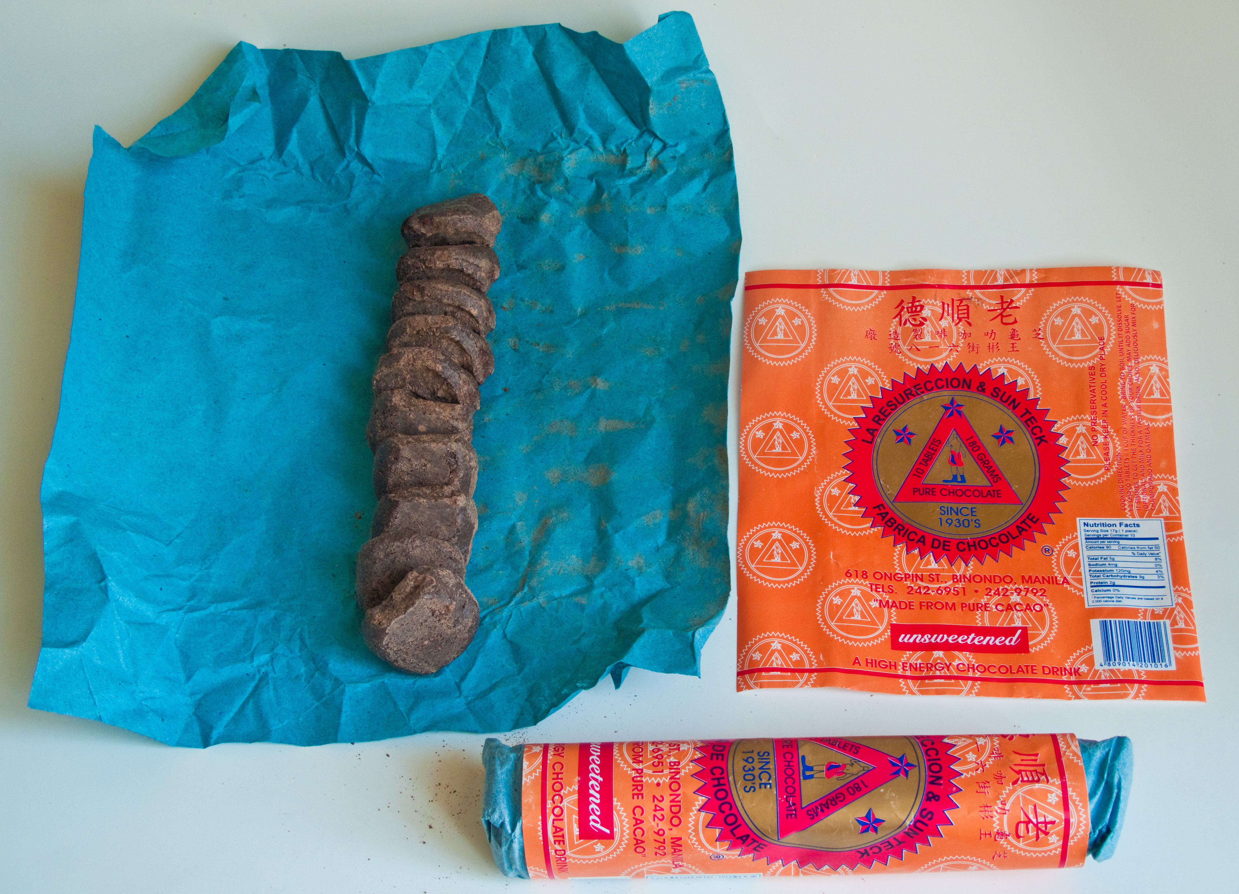 An open packet and an unopened packet, each with 10 tablets of chocolate. Although the label says the chocolate is "unsweetened," the tablets are slightly sweetened with granulated sugar. Each tablet flavors one serving of champorado, a sweet chocolate rice porridge popular in the Philippines. The tablets can be used to make milk-based hot chocolate as well. They are rich in flavor and slightly gritty.